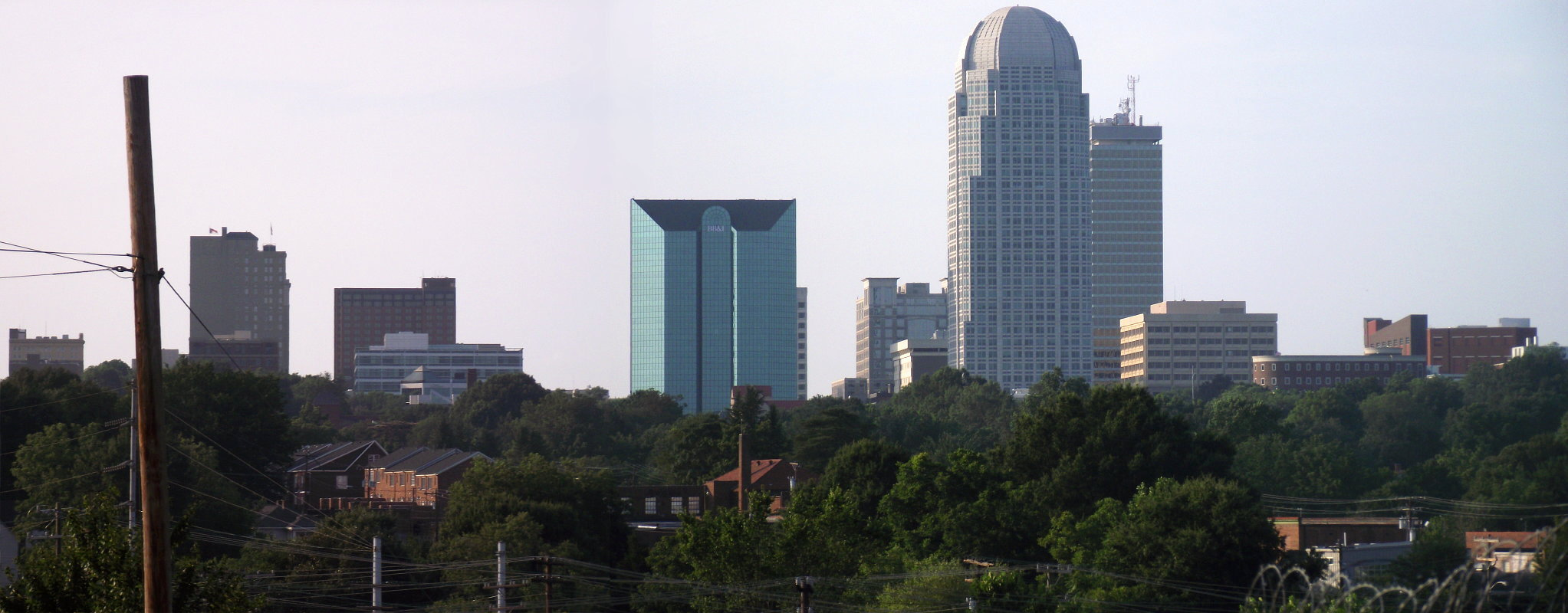 Winston-Salem Downtown panorama from Broad Street